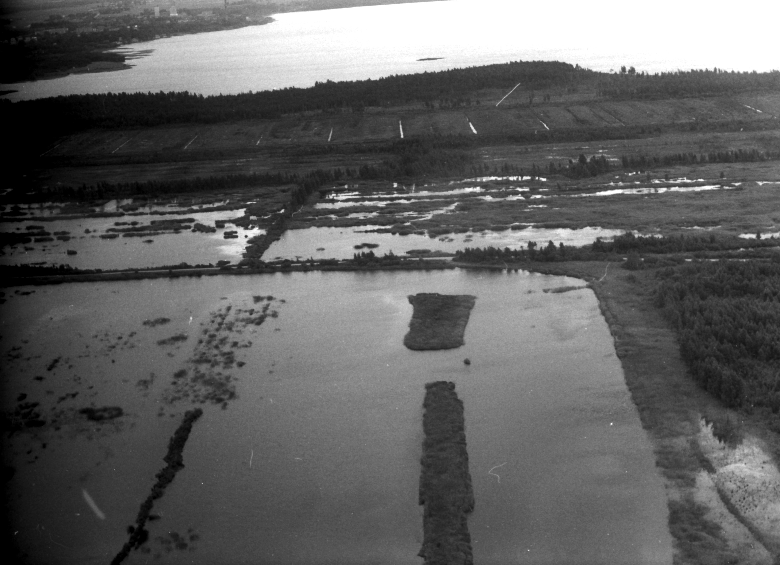 Aerial photographs of Šiauliai, 1996, Lithuania